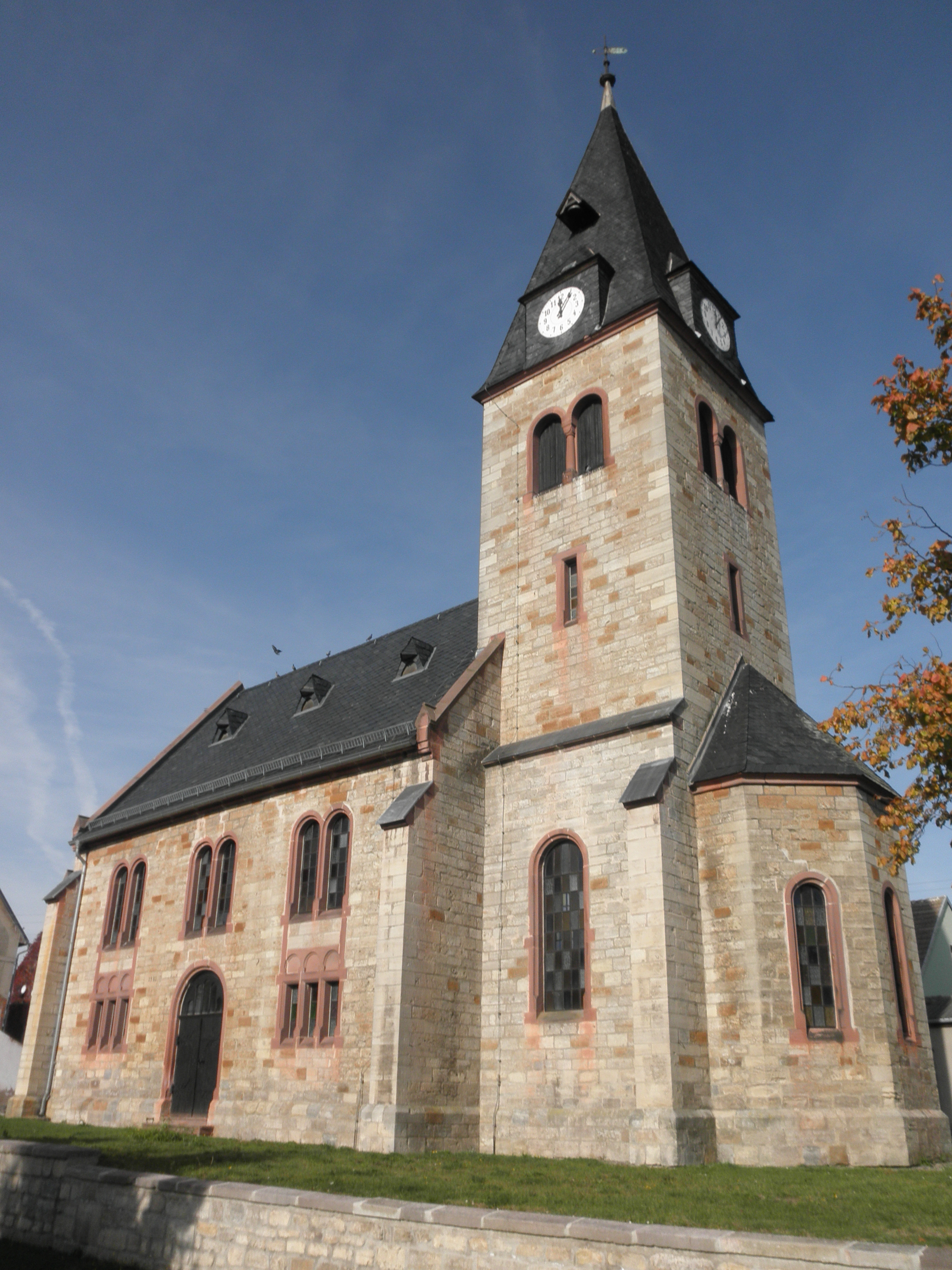 Church in Thalebra (Sondershausen) in Thuringia